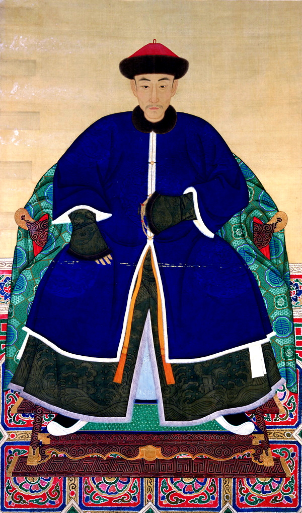 Portrait of Prince Yine, State Duke (Qing Dynasty)